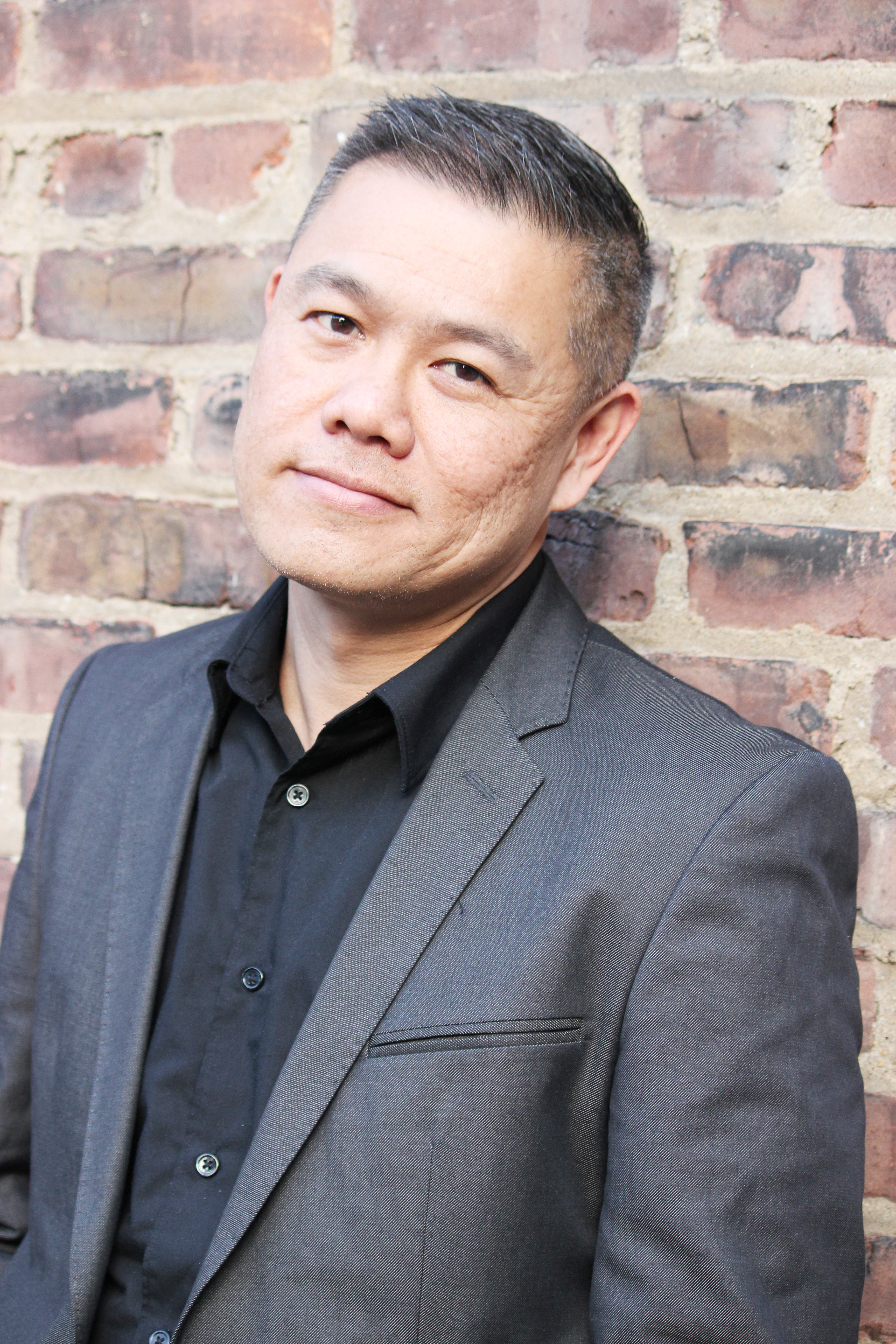 Chay Yew in New York in 2011. Photo by Lia Chang